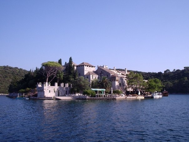 Islet of Saint Mary in the middle of the Great lake on the island of Mljet, Croatia